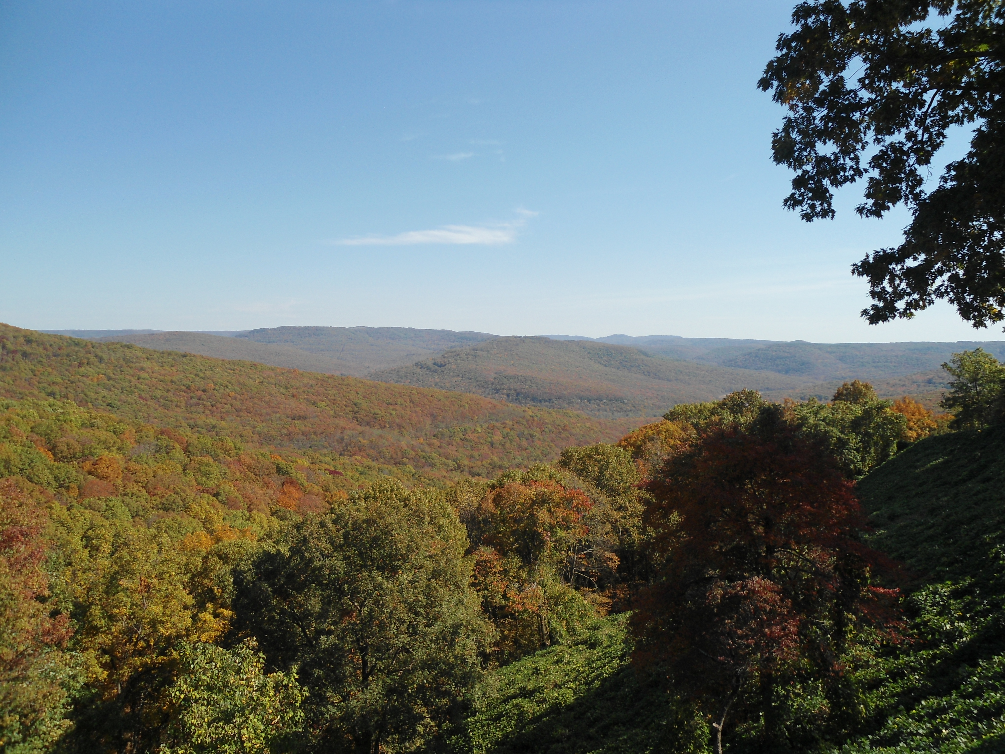 View from Artists Point in Crawford County, AR